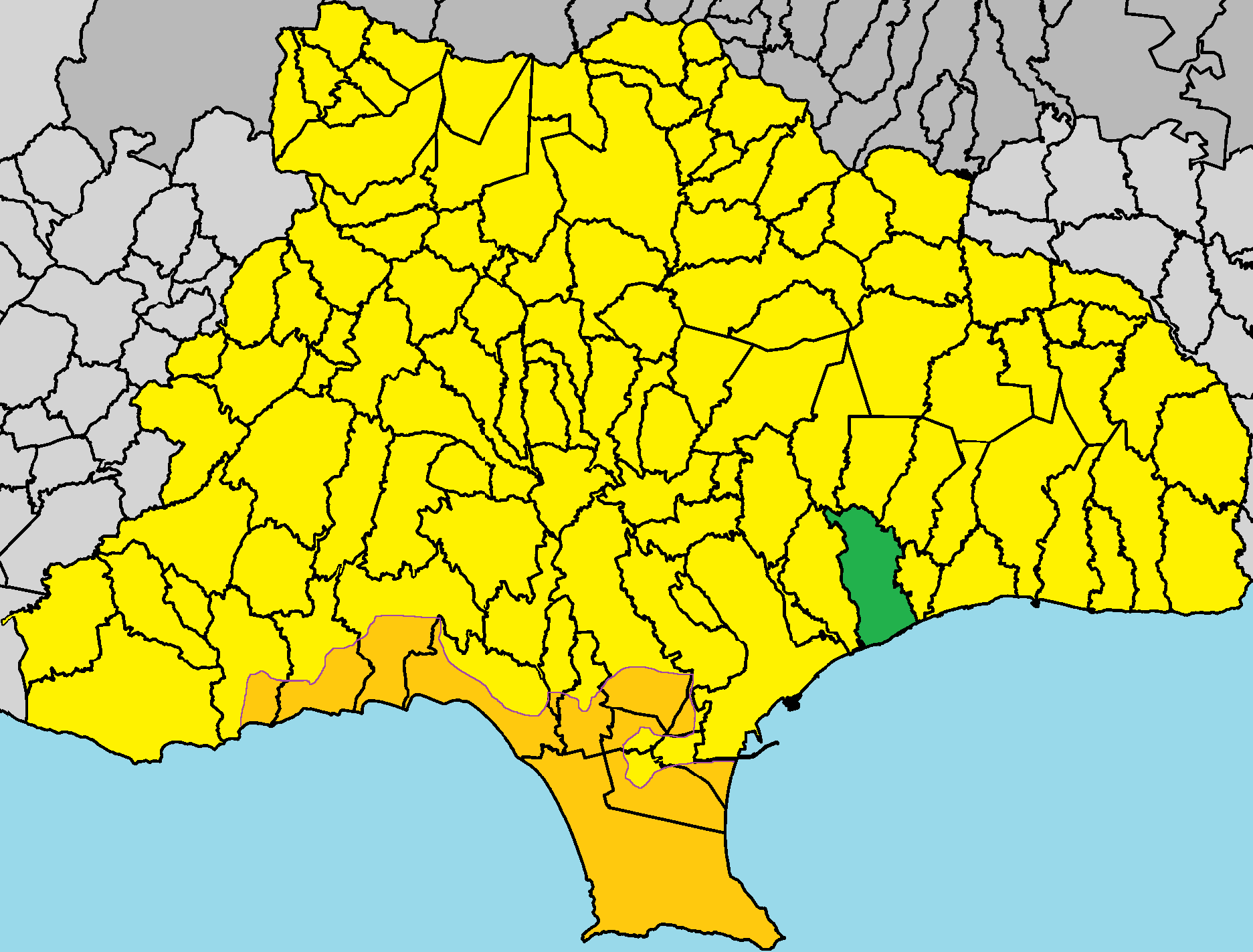 Germasogeia in Limassol District.